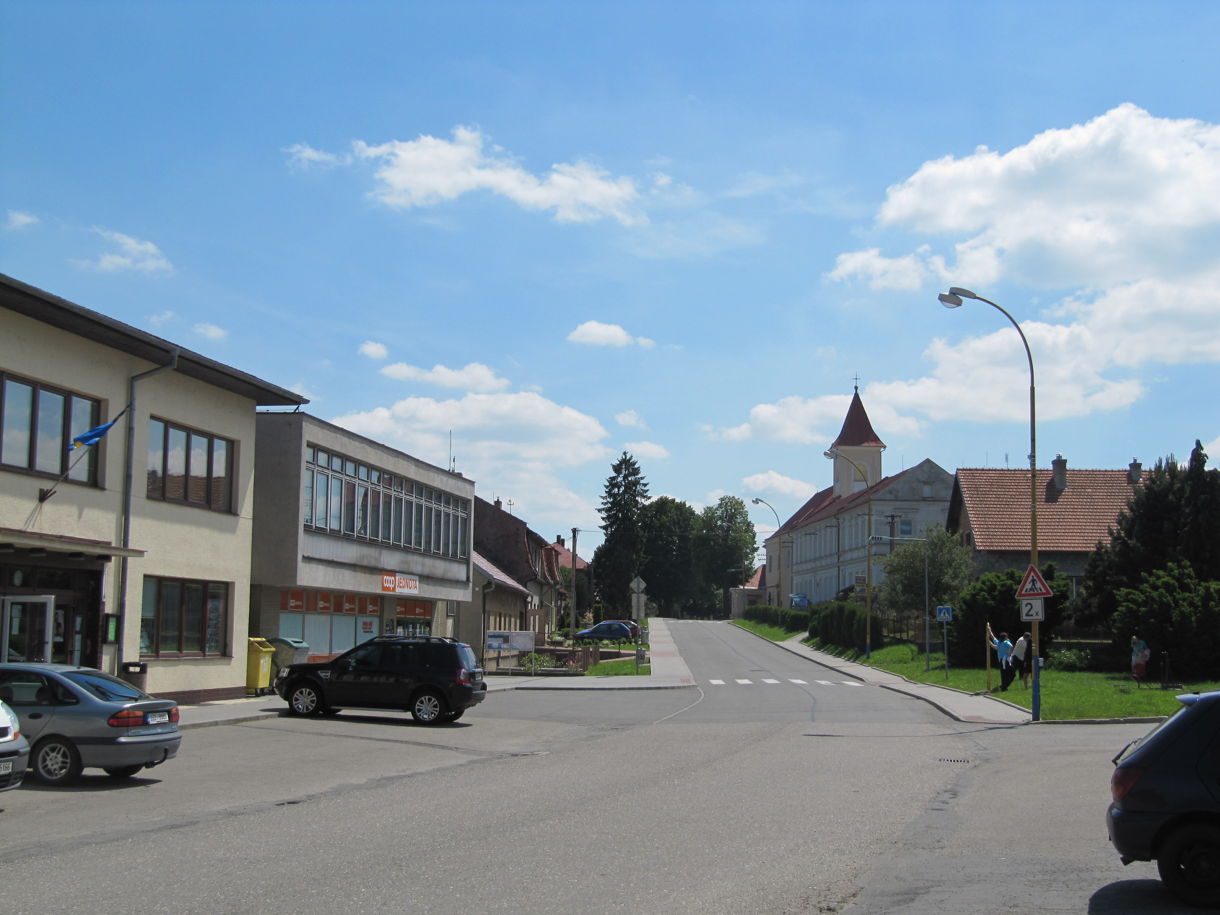 Halenkovice in Zlín District, Czech Republic.Center of the village.